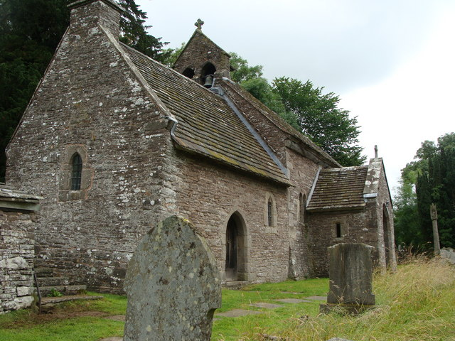 St. Issui's Church, Partrishow The dedicatee's name is also seen spelt Ishow, and the name of the location is may be spelt Patricio.